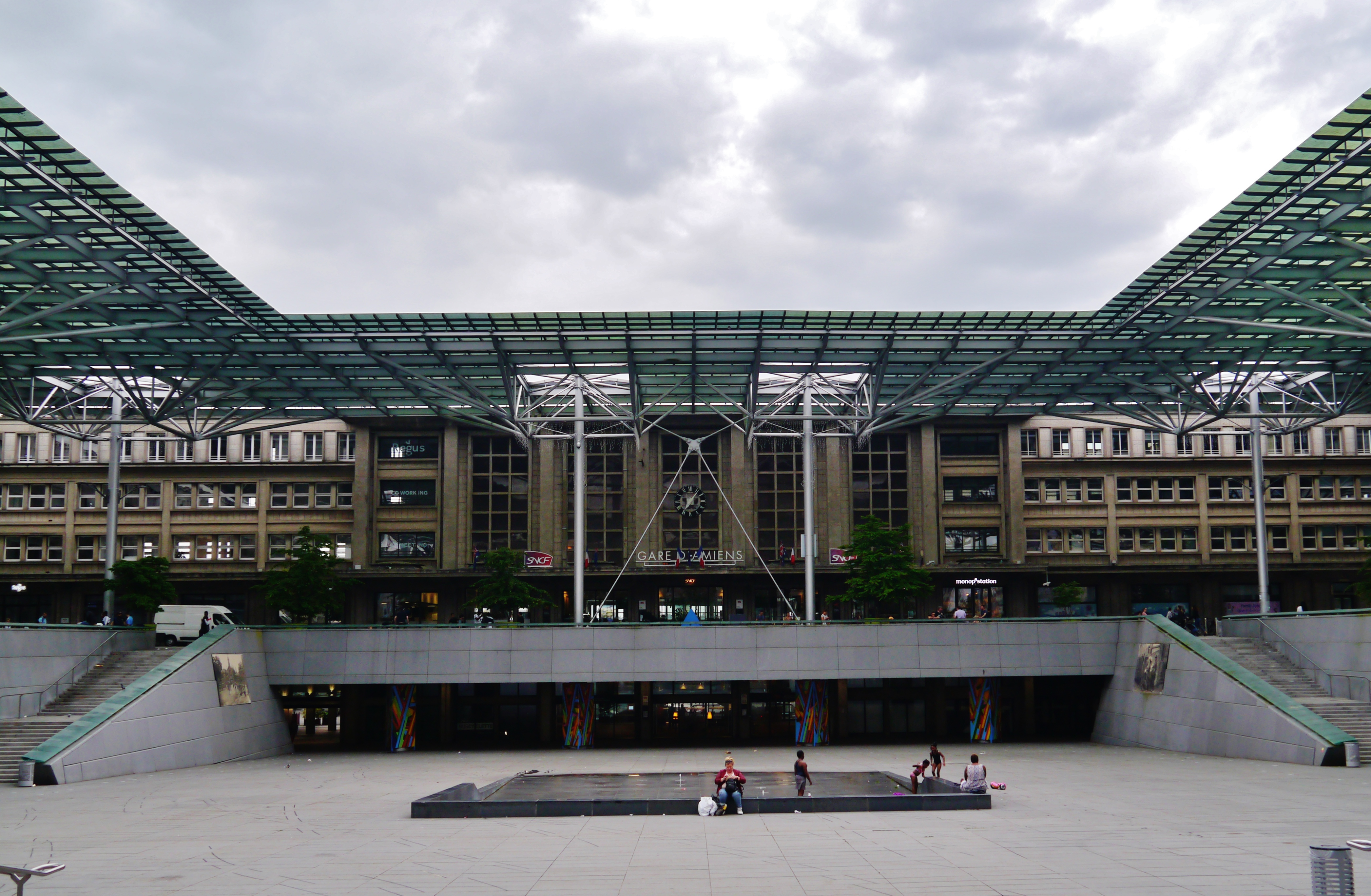 North Station, Amiens, Department of Somme, Region of Upper France (former Picardy), France